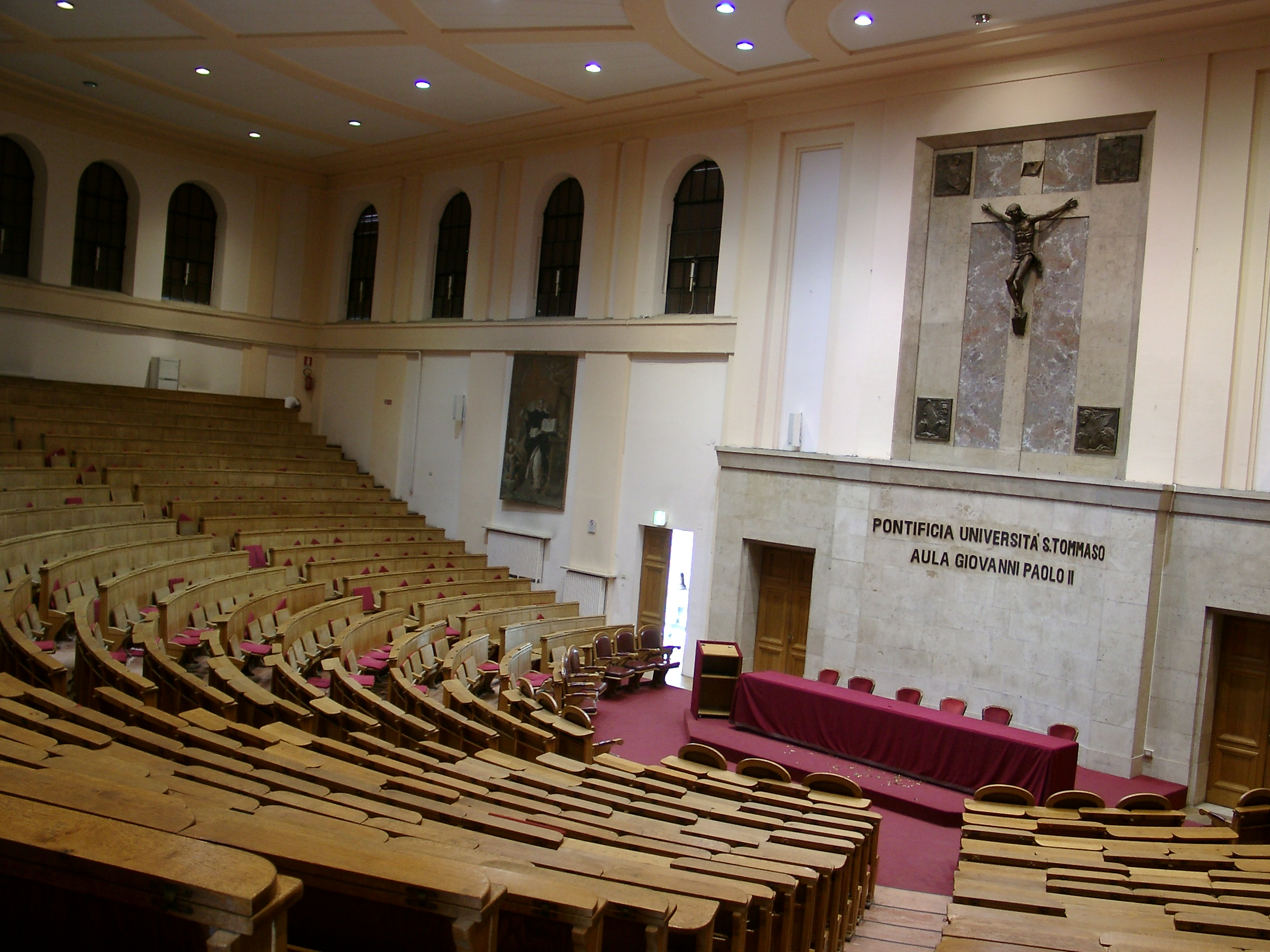 Main lecture room of the Pontifical University of St. Thomas Aquinas